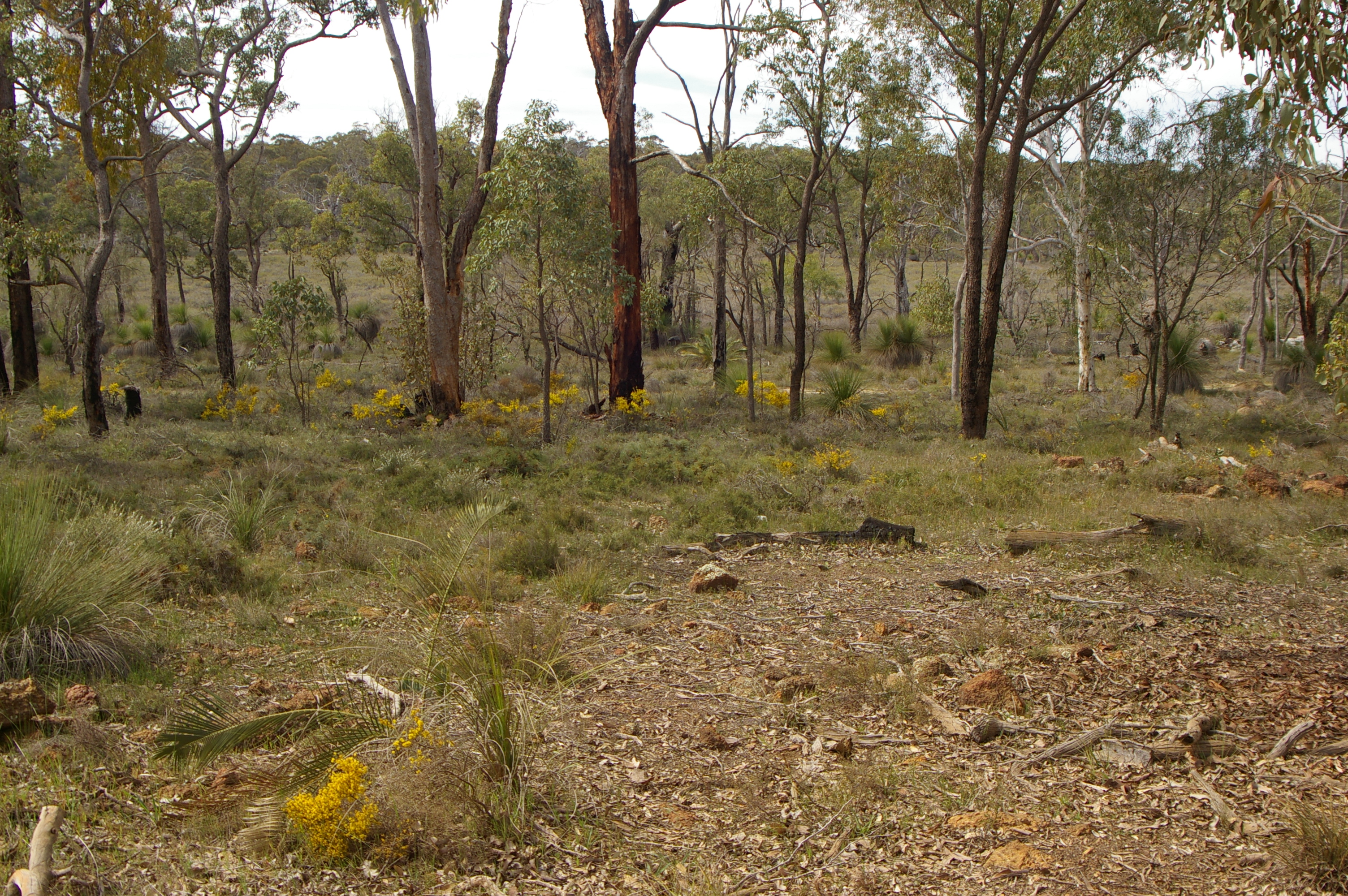 Drummond Nature Reserve, viewed from the western side across the swamp area